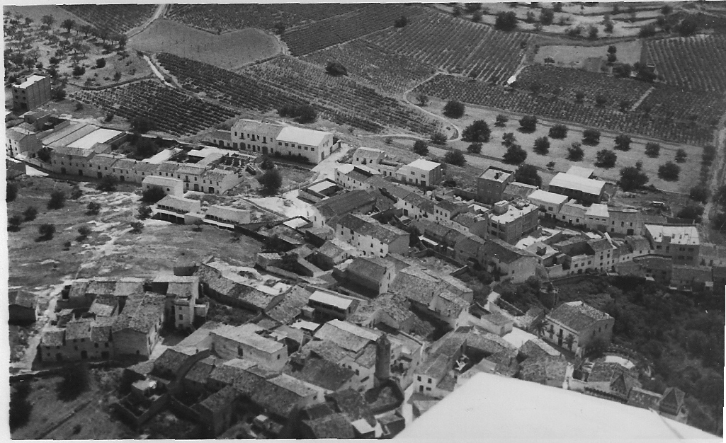 Bird's-eye view of La Nou de Gaià, in Tarragona (Catalunya), at 60s.